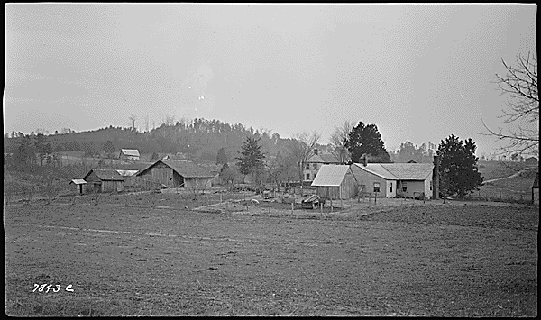 The town of Morganton, Tennessee, USA, photographed in 1939 by the Tennessee Valley Authority as part of the Fort Loudoun Dam project. Morganton, once located on the banks of the Little Tennessee River just west of modern Greenback, was submerged by the waters Tellico Lake in 1979. Originally entitled "Panorama of town, 1939." ARC identifier 280847.